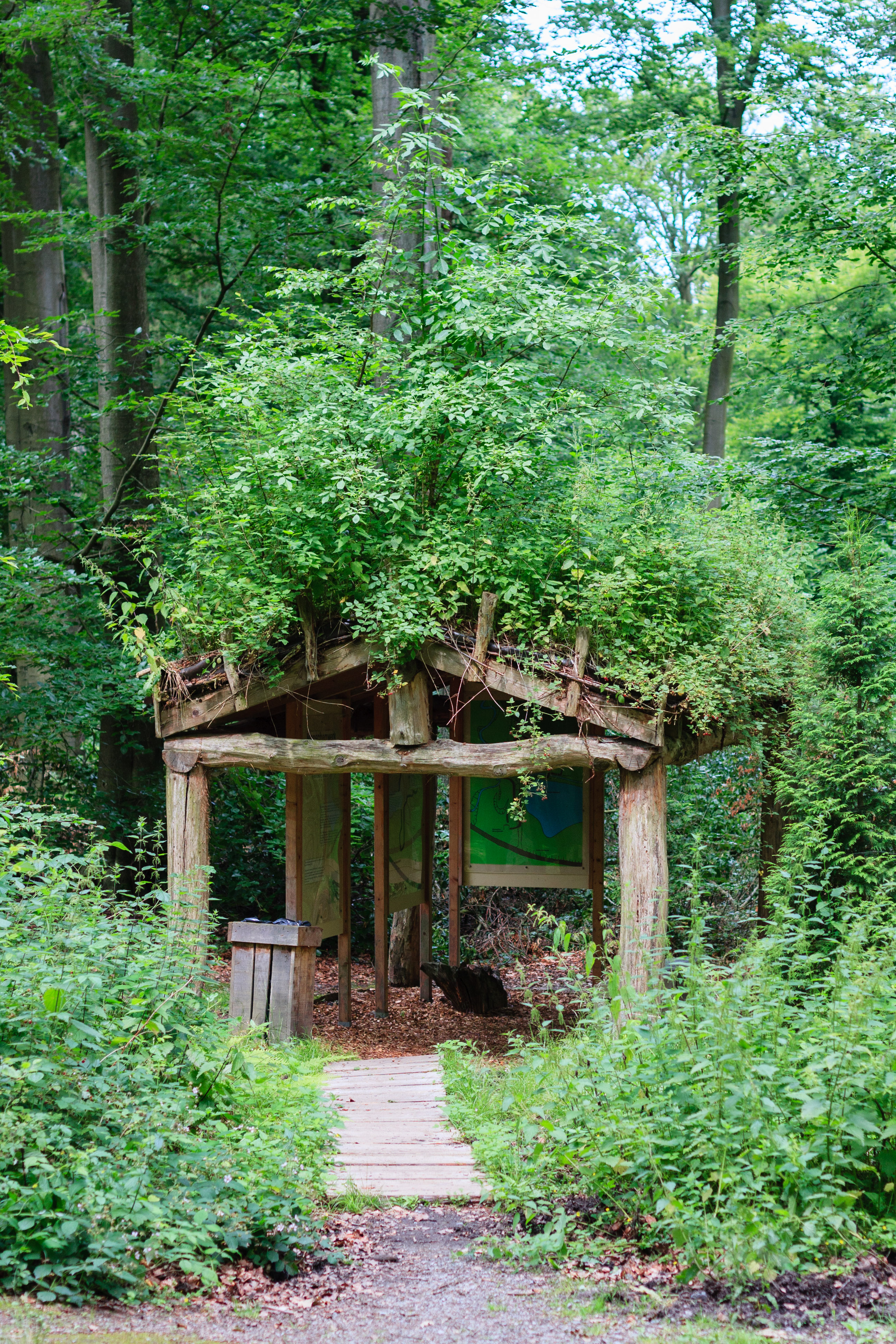 An information house in the integral nature reserve "Wildwald Voßwinkel", Germany, 2008